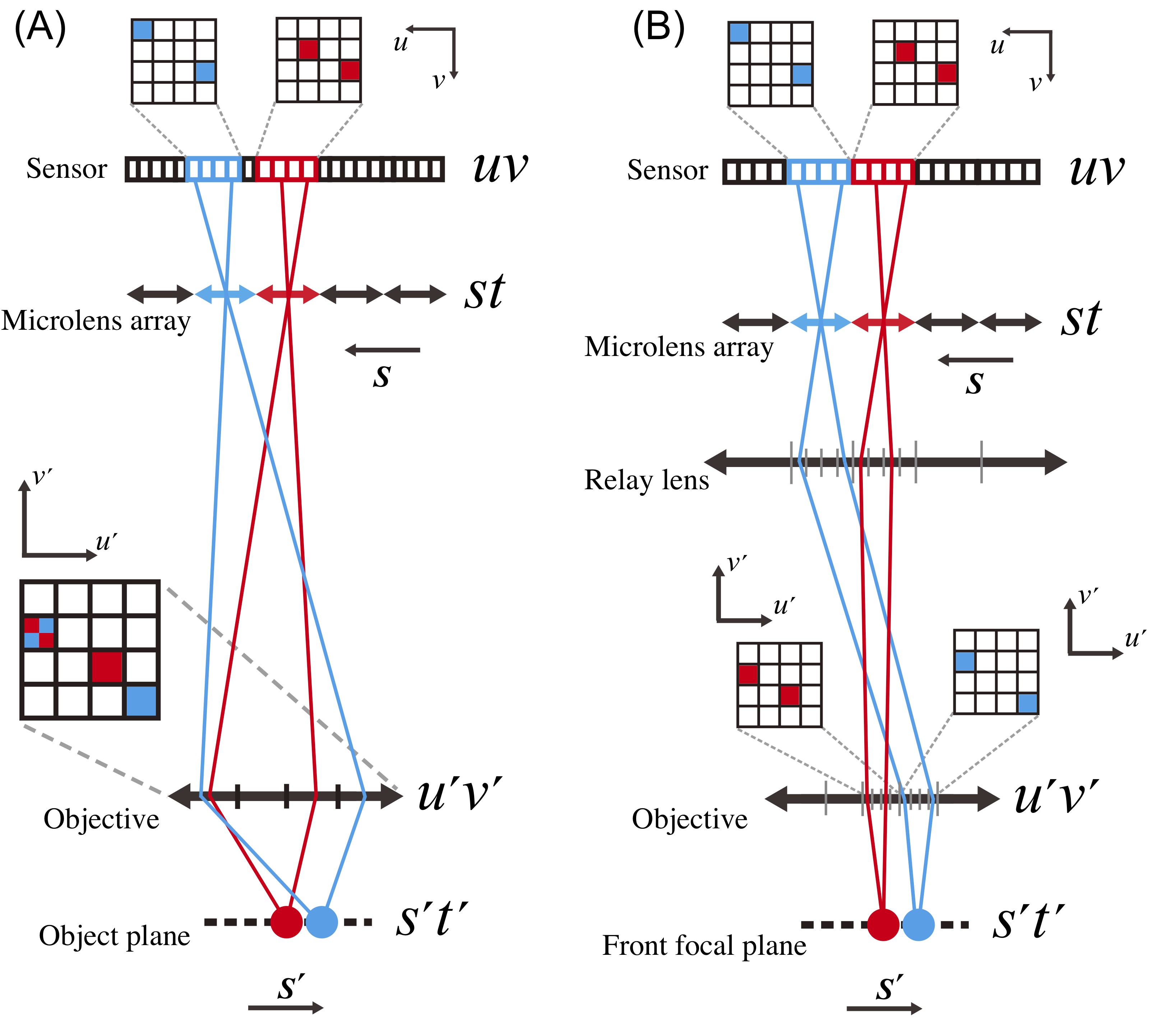 This figure demonstrate ray parameterization of the light field microscopy in two different optical system: one with a relay module and other without.